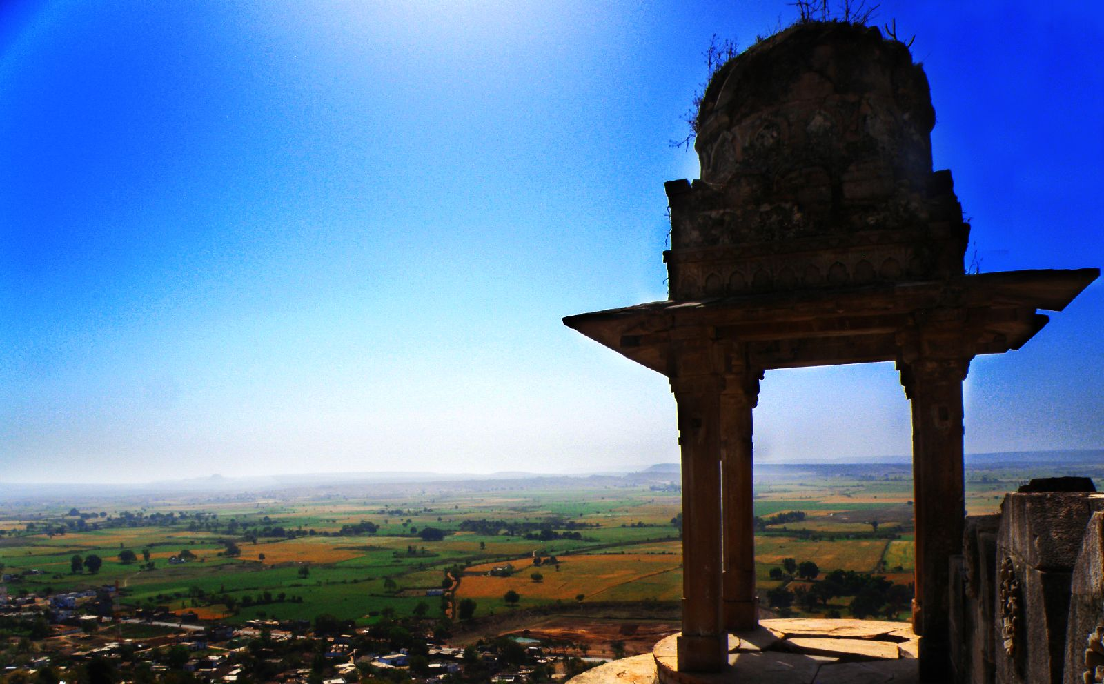 This place is near Sanchi. The fort is about 800 years old. It is built on a hill and occupies the entire hilltop.